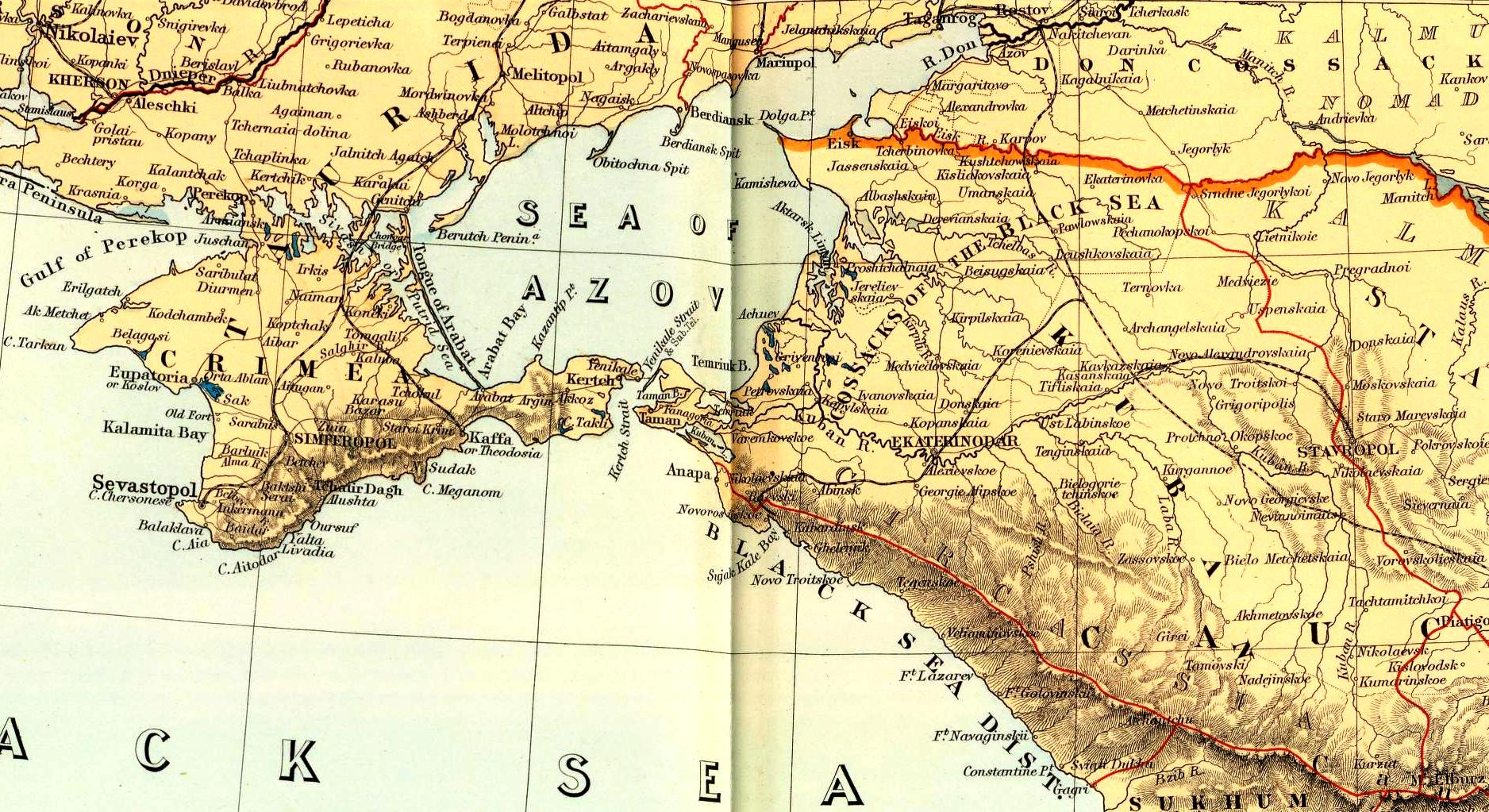 Asia Minor, the Caucasus & the Black Sea. London atlas series. Stanford's Geogl. Estabt. London : Edward Stanford, 26 & 27, Cockspur St., Charing Cross, S.W. (1901)